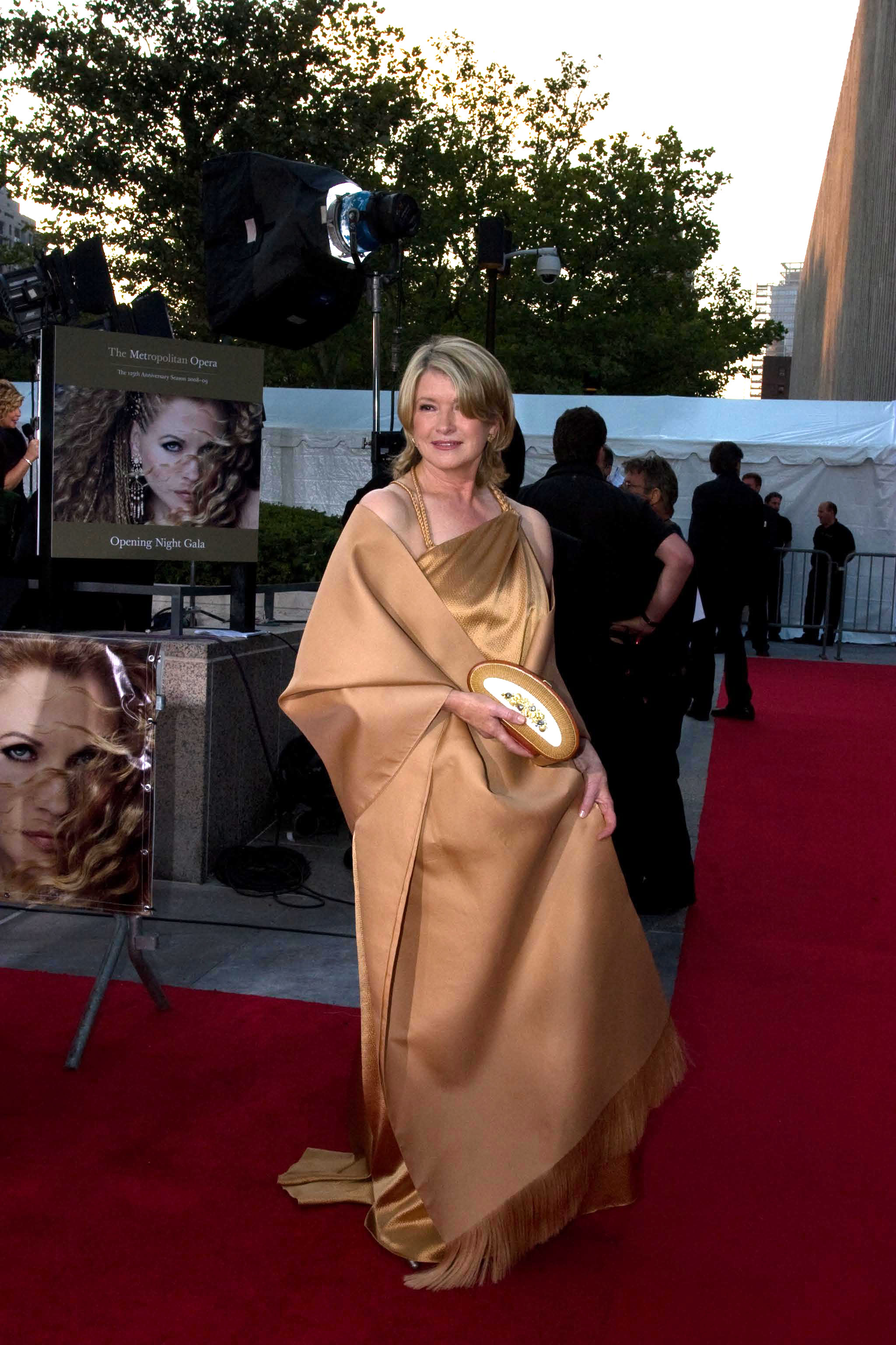 Martha Stewart at the Metropolitan Opera opening in 2008. © Rubenstein, photographer Martyna Borkowski